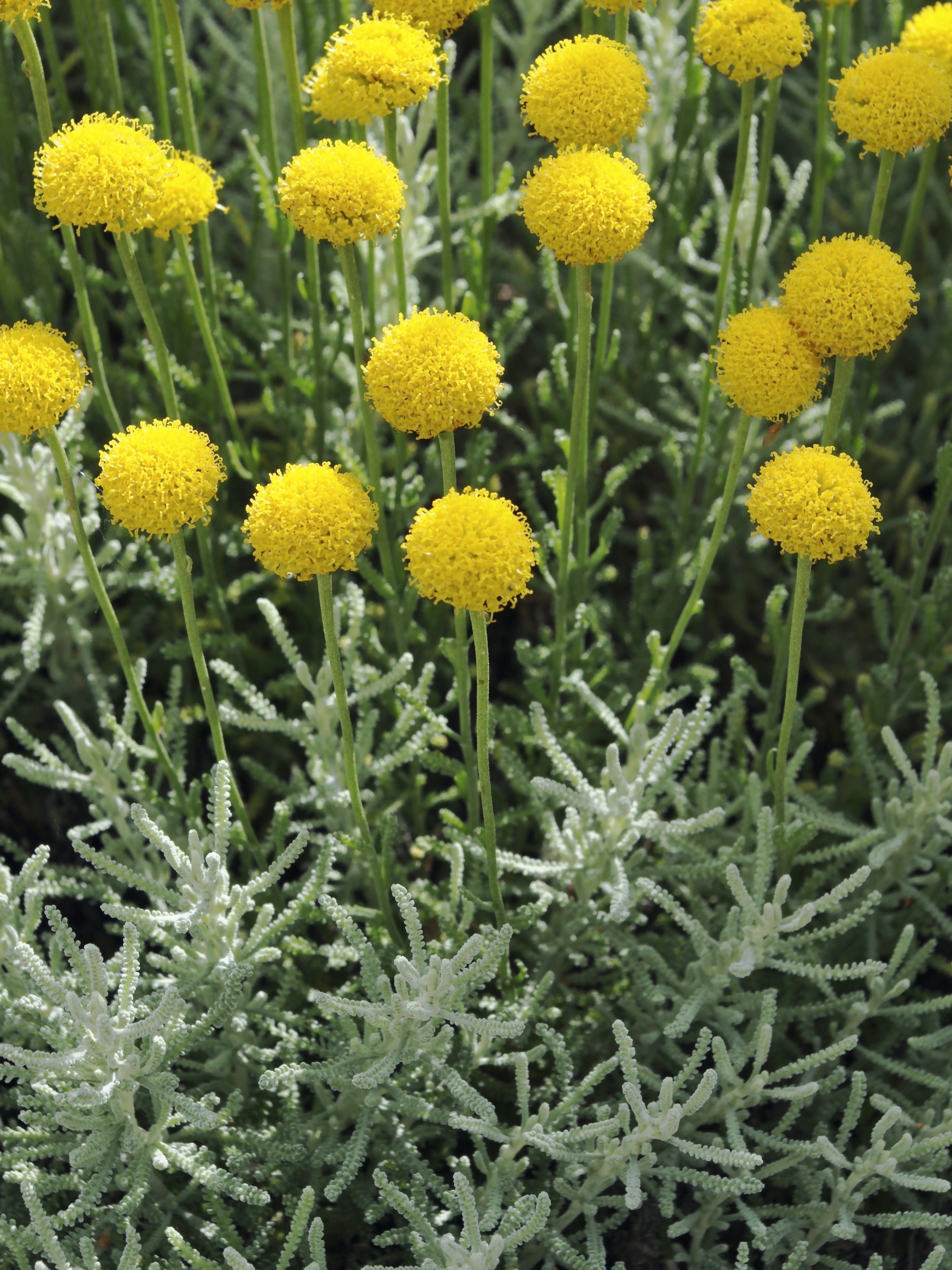 Gray Santolina (Santolina chamaecyparissus), in a garden, France